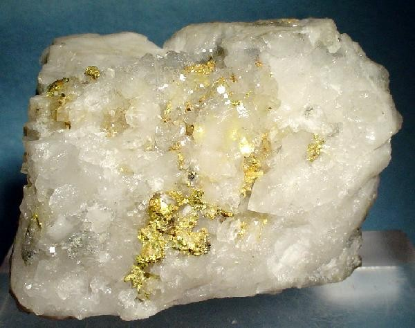 Gold Locality: Grass Valley, Nevada City District (Grass Valley District), Nevada County, California, USA (Locality at ) Size: 5.8 x 4.1 x 2.9 cm. Bright, octahedral gold crystals on and in glassy milky quartz form a VERY RICH and showy gold ore specimen from the famous Grass Valley District of Nevada County, California. This is OLD-TIME material from the George Elling Collection.